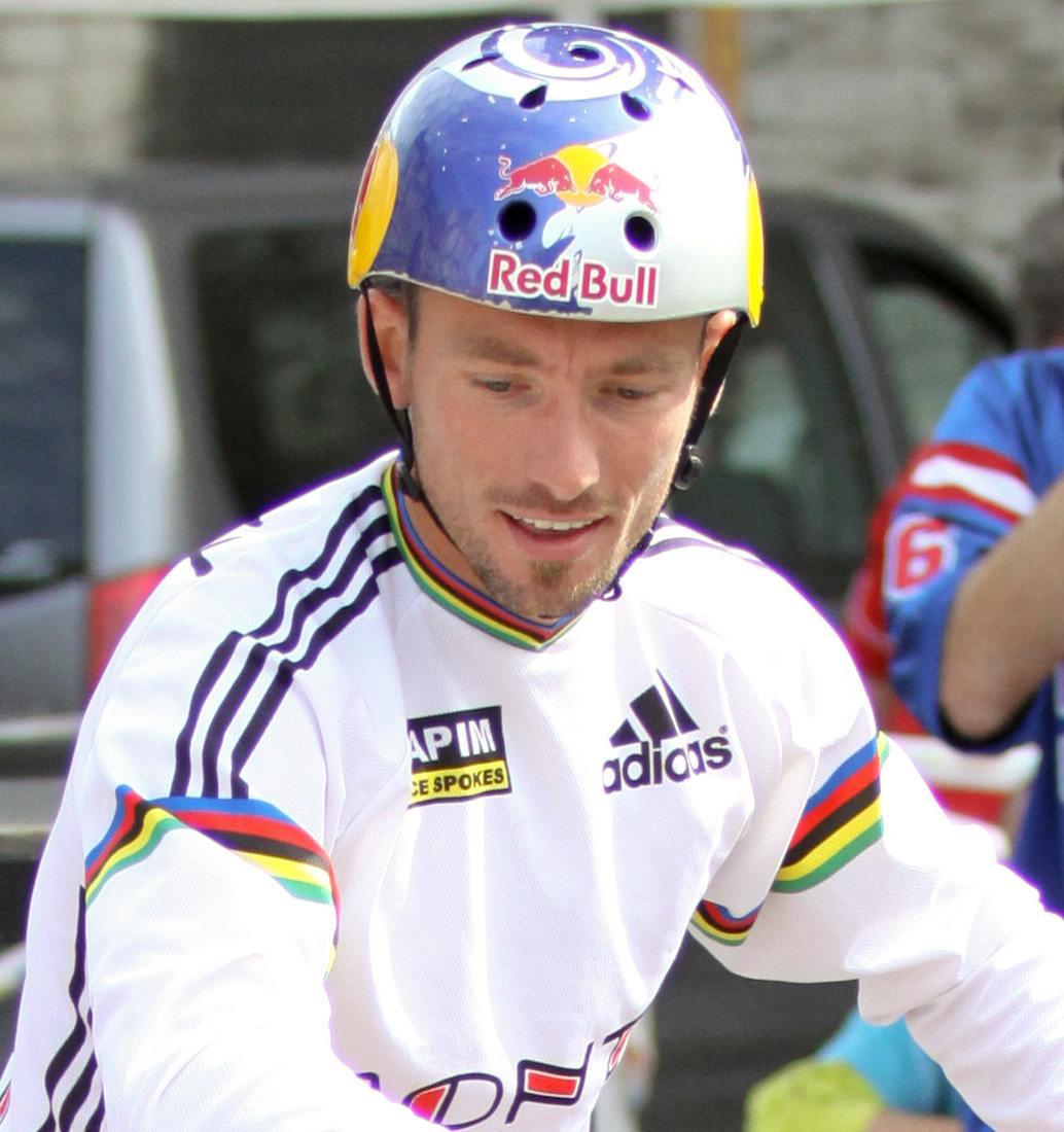 Taken in Ghent, Belgium during Sportief Gent 2010